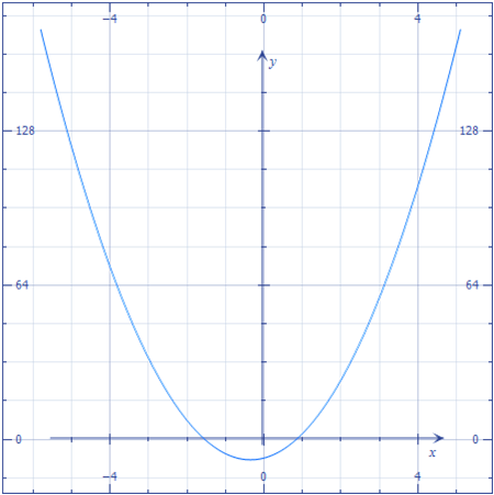 Quadratic function on y=6x^2+4x-8